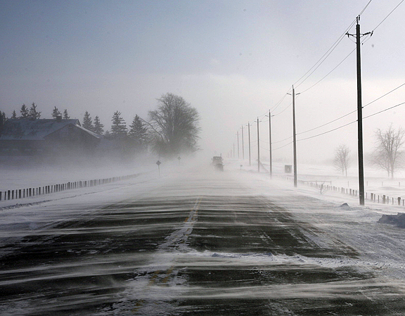 Snow drifting across road